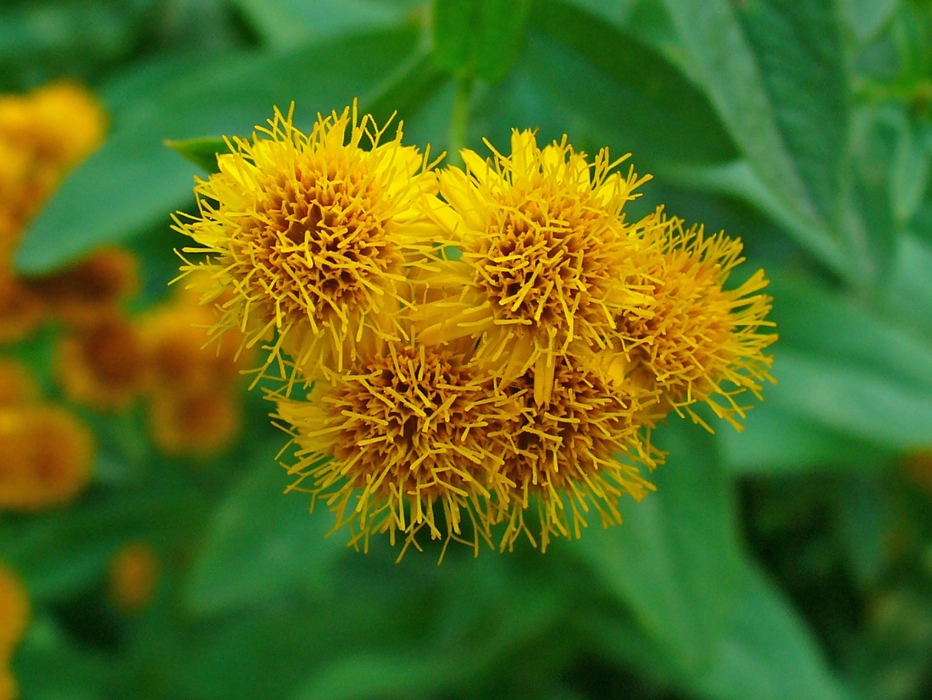 Inula germanica, Asteraceae, German Inula, inflorescences; Botanical Garden KIT, Karlsruhe, Germany.